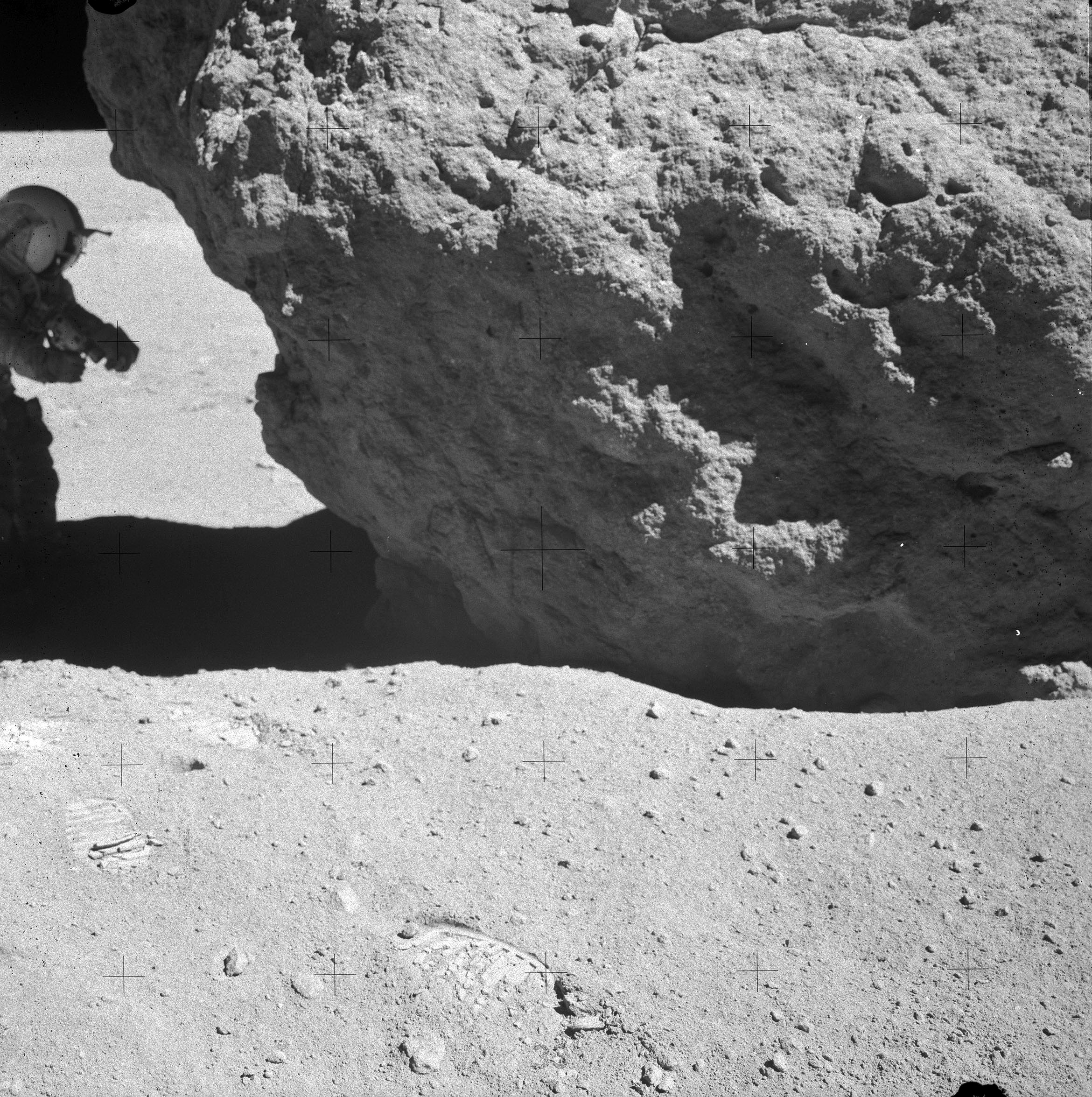 Apollo 16 commander John Young stands in the shadow of 'Shadow Rock' during the third moonwalk (EVA-3) of the mission. (Apollo 16, AS16-106-17413)